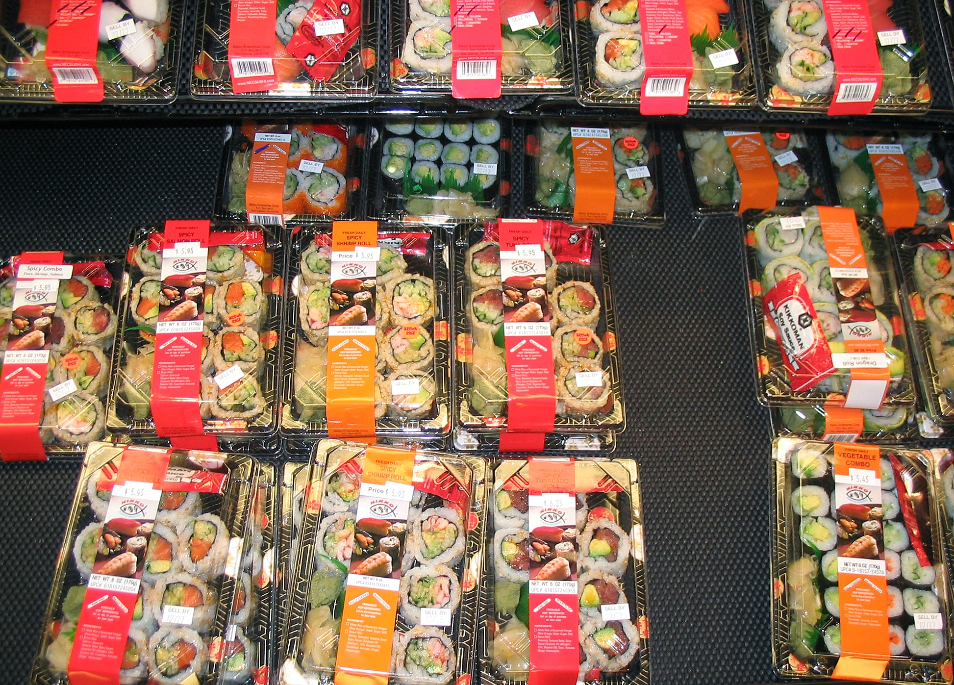 Prepackaged sushi.